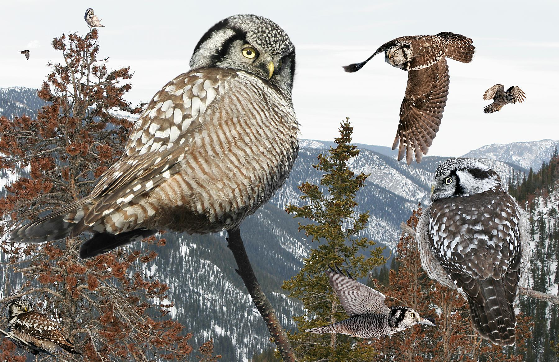 Hawk Owl From The Crossley ID Guide Eastern Birds